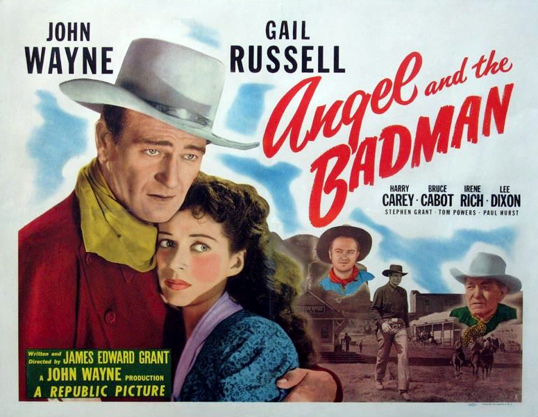 Poster for the 1947 film Angel and the Badman. There are no copyright marks on the poster-the marks at lower right are a union printers' mark and "Country of origin USA" at lower right.